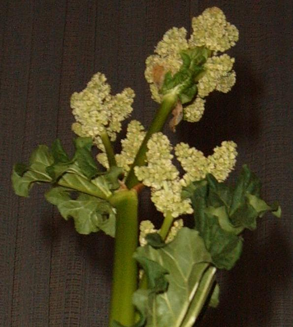 Rhubarb flower. I took this picture. Peter Ellis 03:41, 2 October 2006 (UTC)